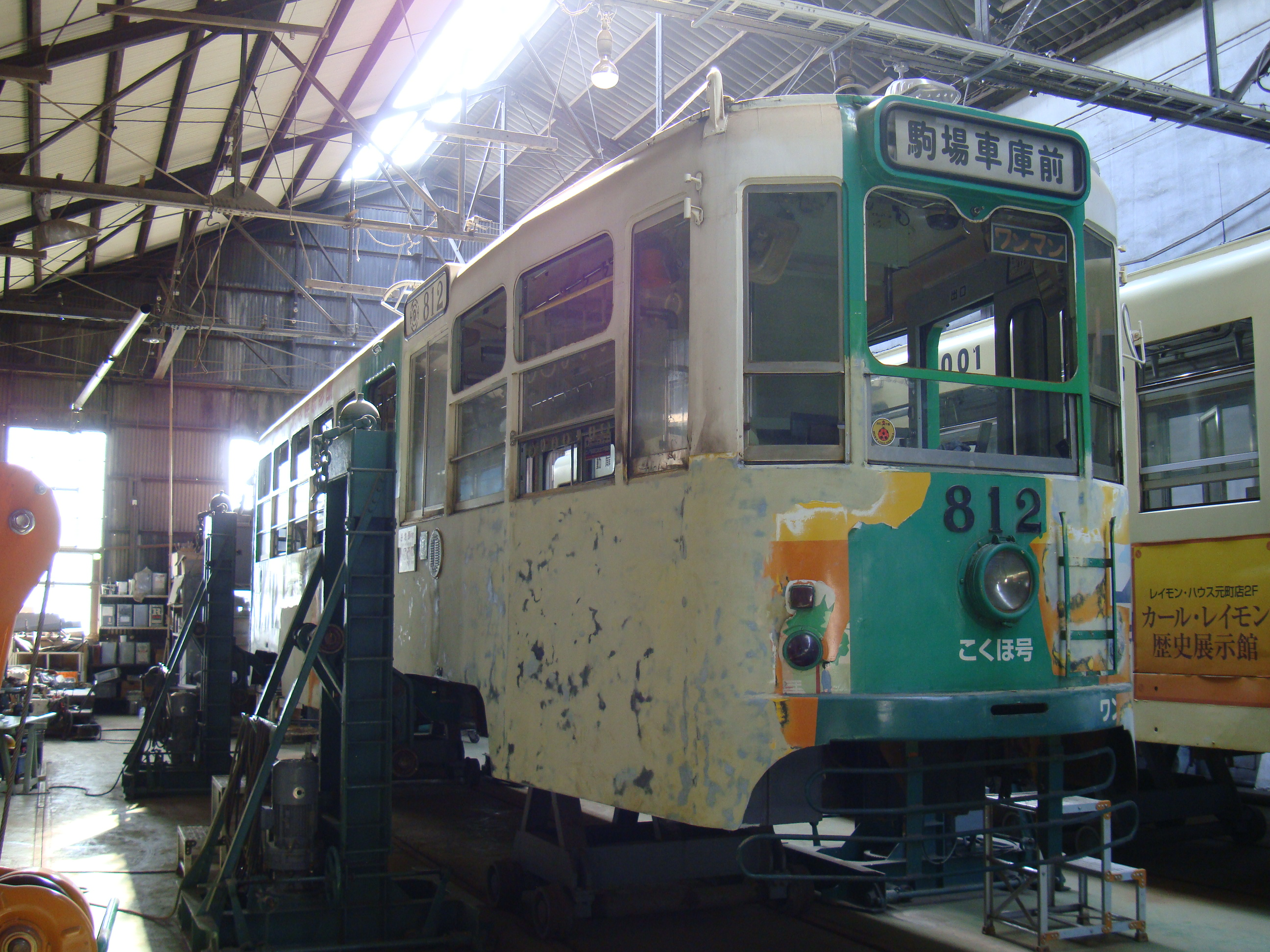 Hakodate tram 812